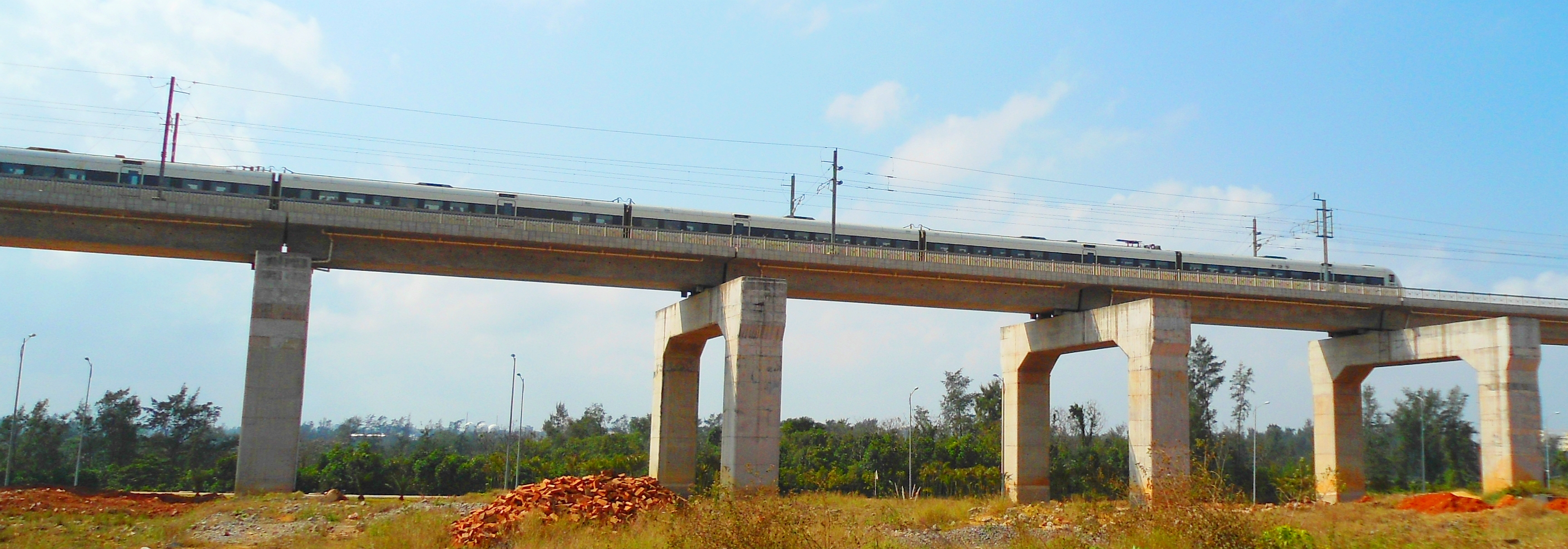 CRH train arriving at Haikou East Railway Station, Haikou, Hainan Province, People's Republic of China